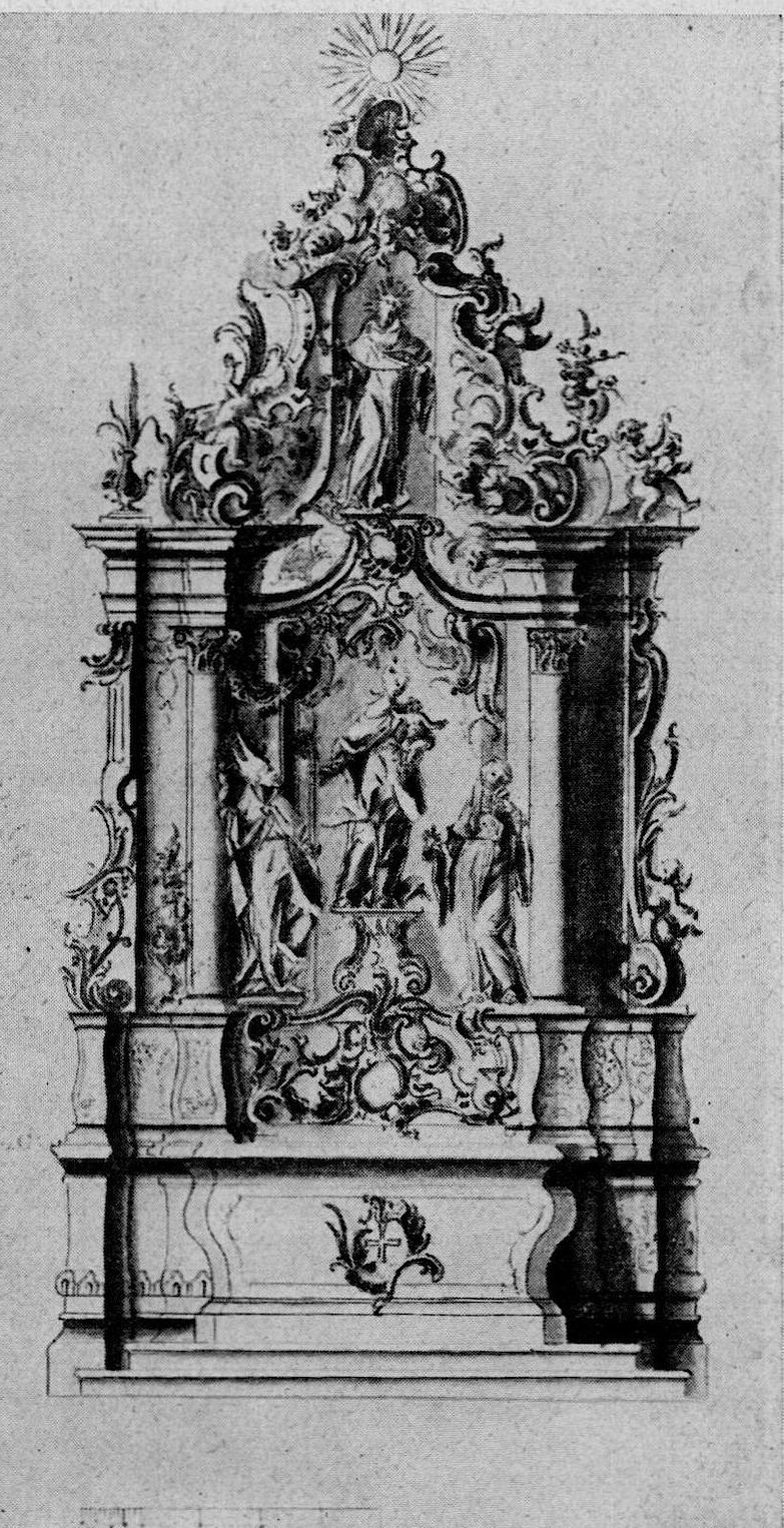 Drawing by Franz Xaver Bieheler for altar in Steinach, Ortenaukreis, Germany